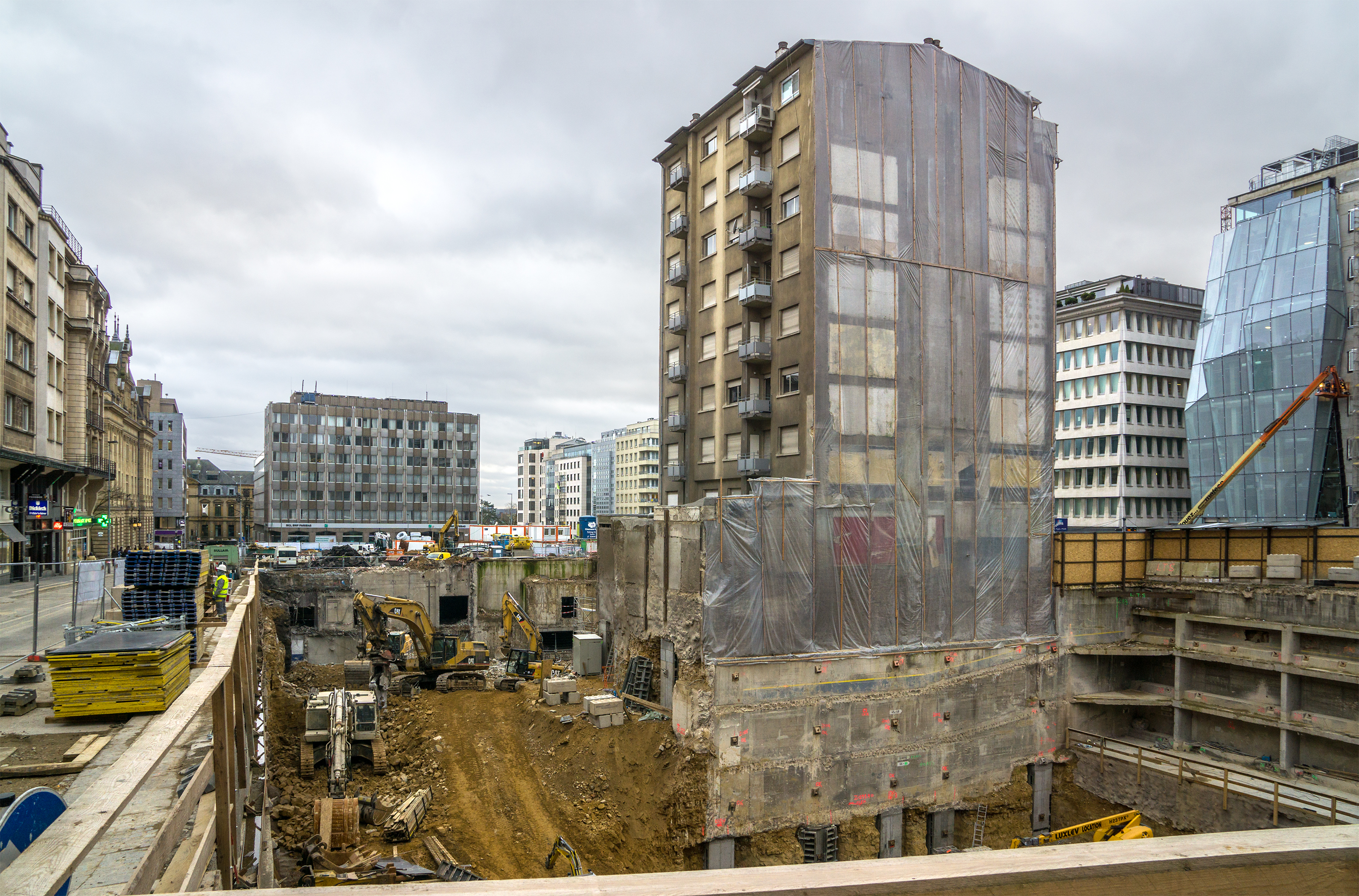 Construction site of the Royal Hamilius project